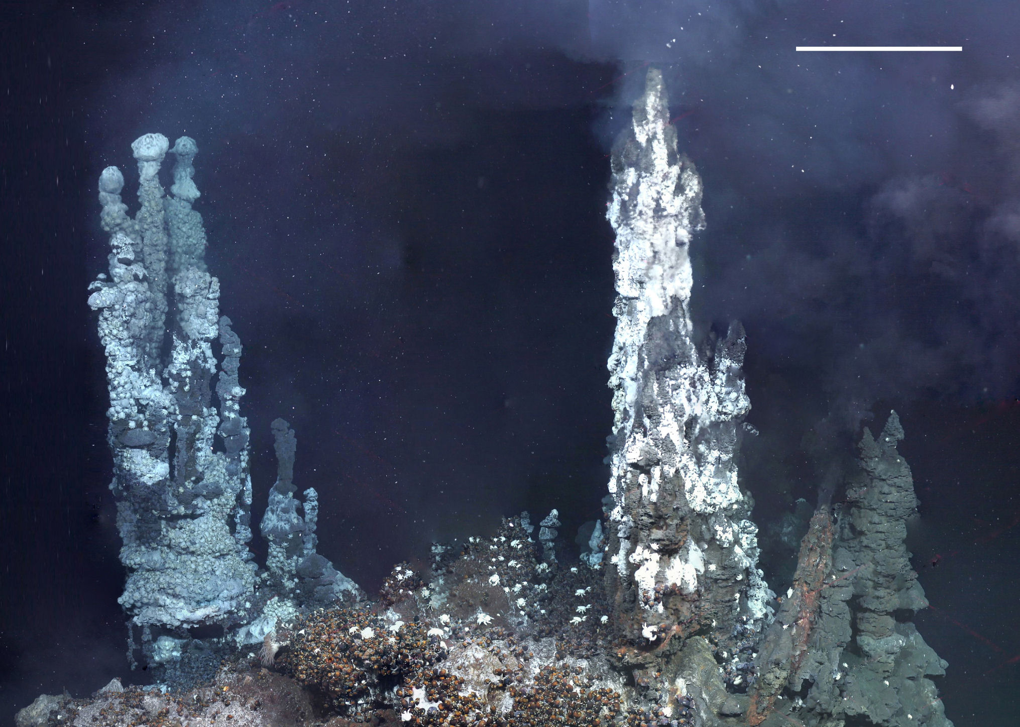 Collage of frame grabs of high-definition video to show fauna dispersion on the E9 vent site Ivory Tower. The vertical chimneys are covered with the anomuran Kiwa n. sp., and the area between the chimneys is occupied primarily by an undescribed peltospiroid gastropod (Dive 142, 2,398 m depth, ROV heading 090°). Scale bar: 1 m for foreground. Collage created by L. M.